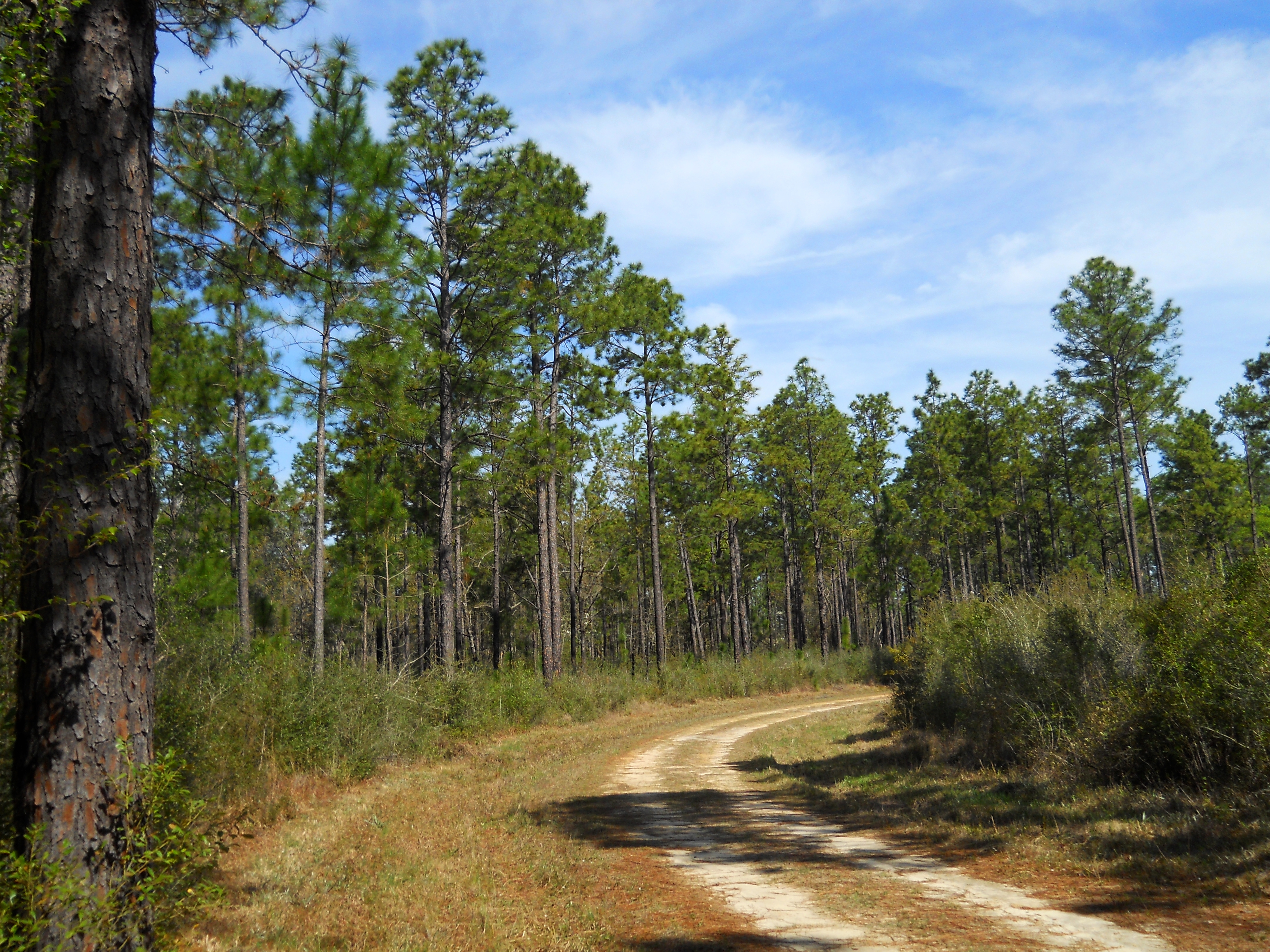 Longleaf, slash, and loblolly pines in DeSoto National Forest, Stone County, Mississippi, USA